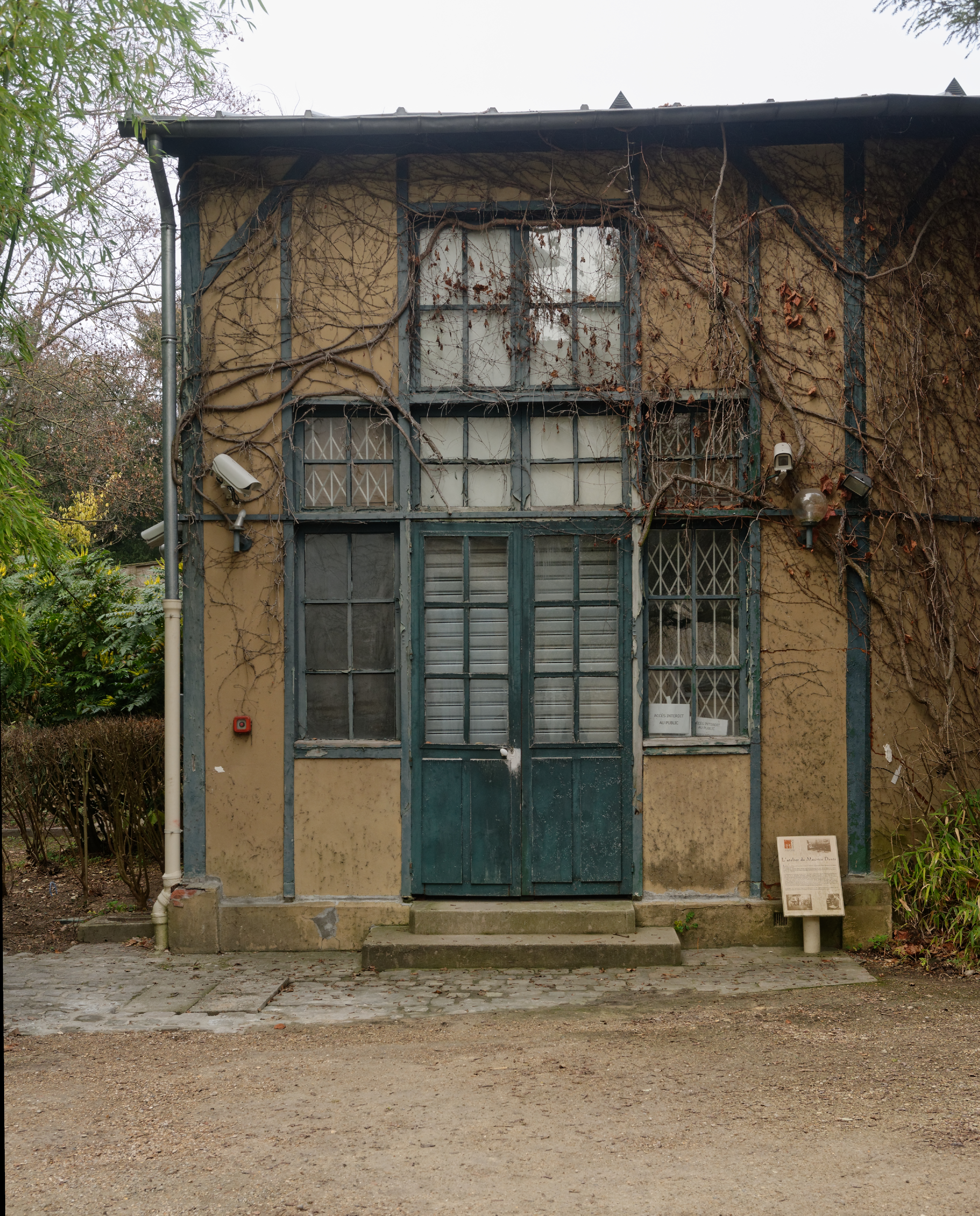 Maurice Denis' workshop at the Priory, now the Musée départemental Maurice Denis.